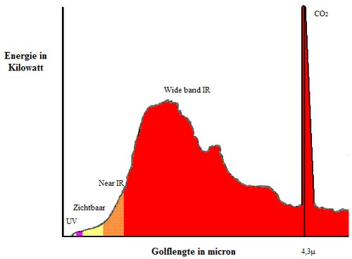 Radiation of an Hydrocarbon Fire Dutch, Jan Nijkamp, Sense-WARE Fire and Gas Detection BV